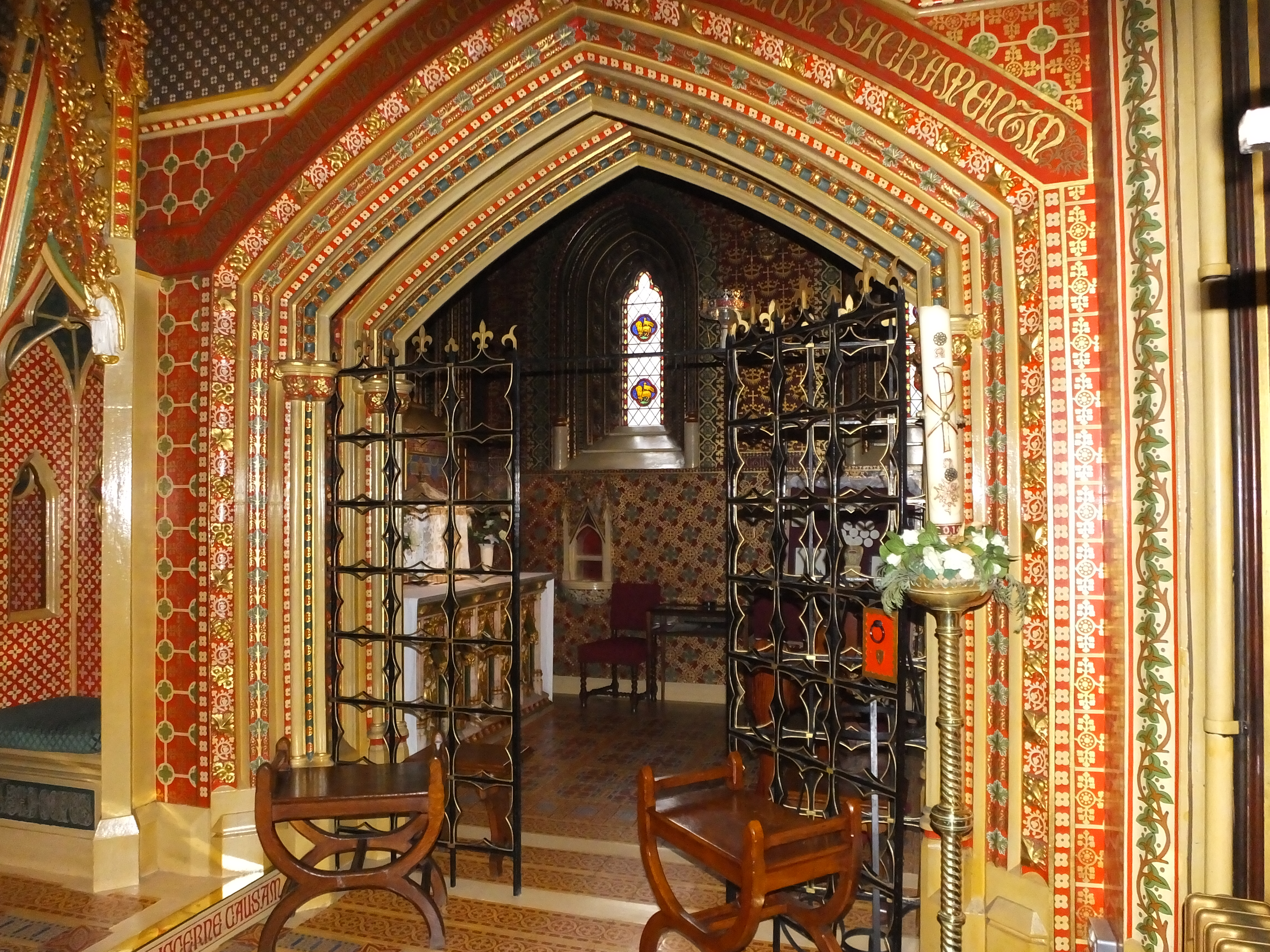 St. Giles' Church, Cheadle is a Grade I listed Roman Catholic church, designed by Pugin in Cheadle, Staffordshire. It is designed in the Gothic revival style in 1841. The nave